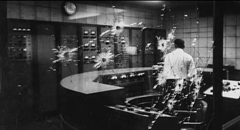 Presidential Palace Attack_Radio Reloj_Havana, Cuba, 1957